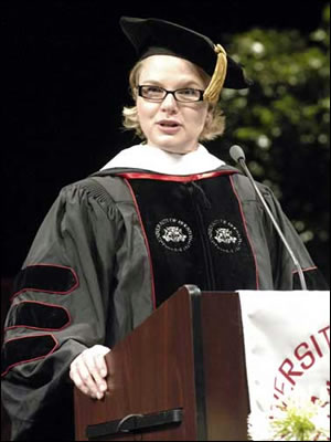 U.S. Secretary of Education, Margaret Spellings speaking at the University of Houston upon receiving an Honorary Doctor of Humane Letters from the university